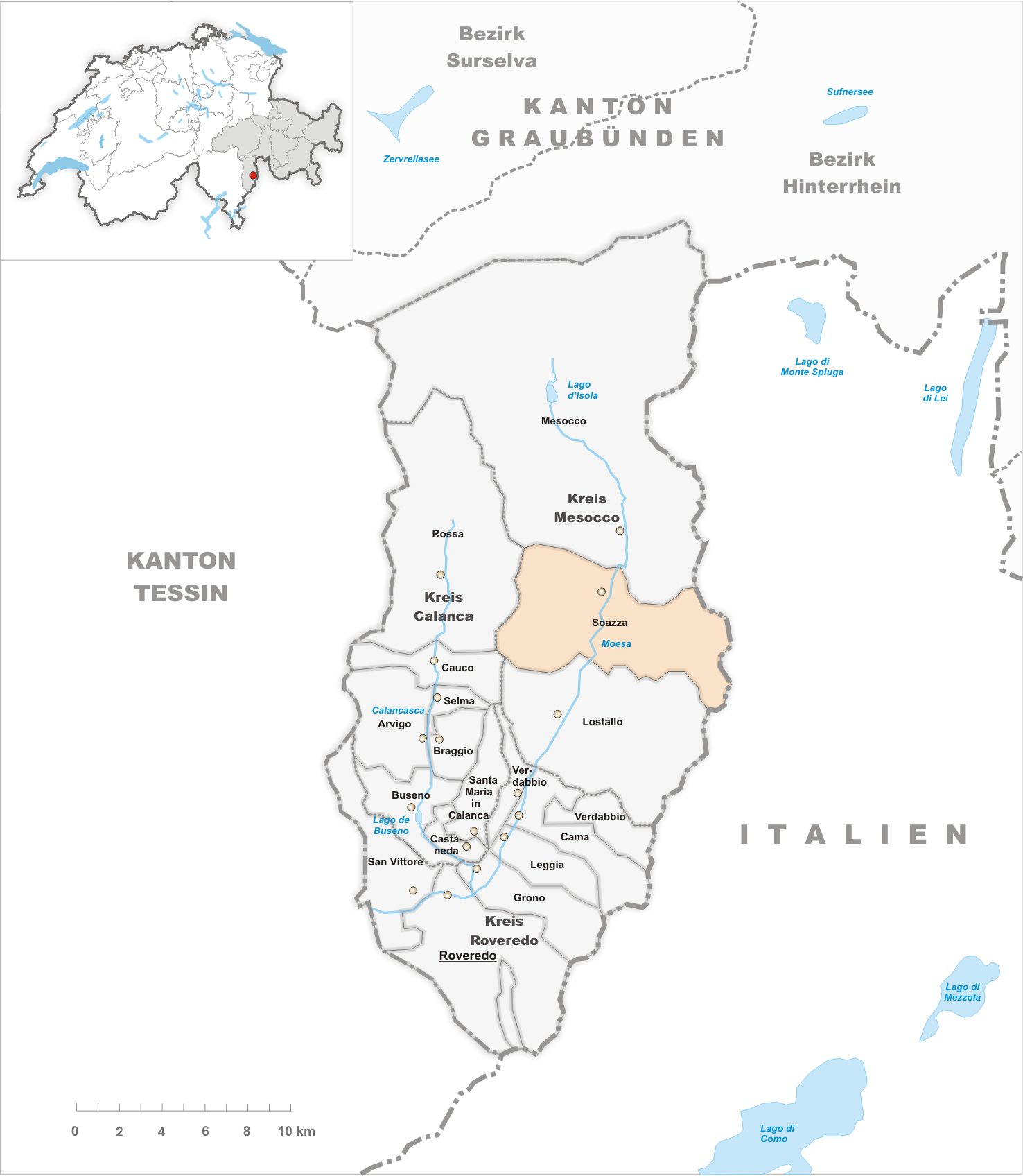 Municipality Soazza